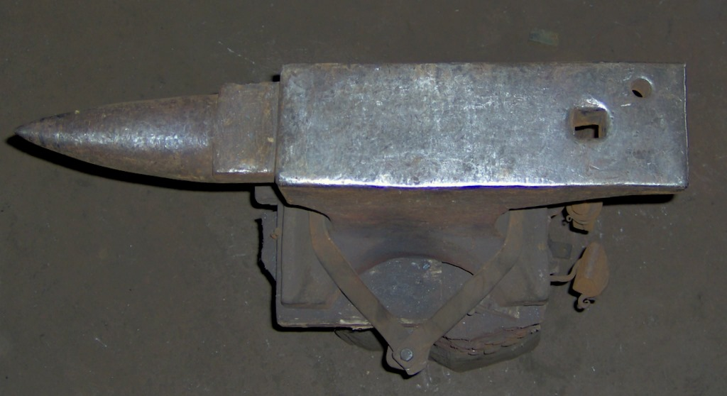 A well worn London pattern anvil. This shot gives a clear view of the various parts of the anvil seen from above.